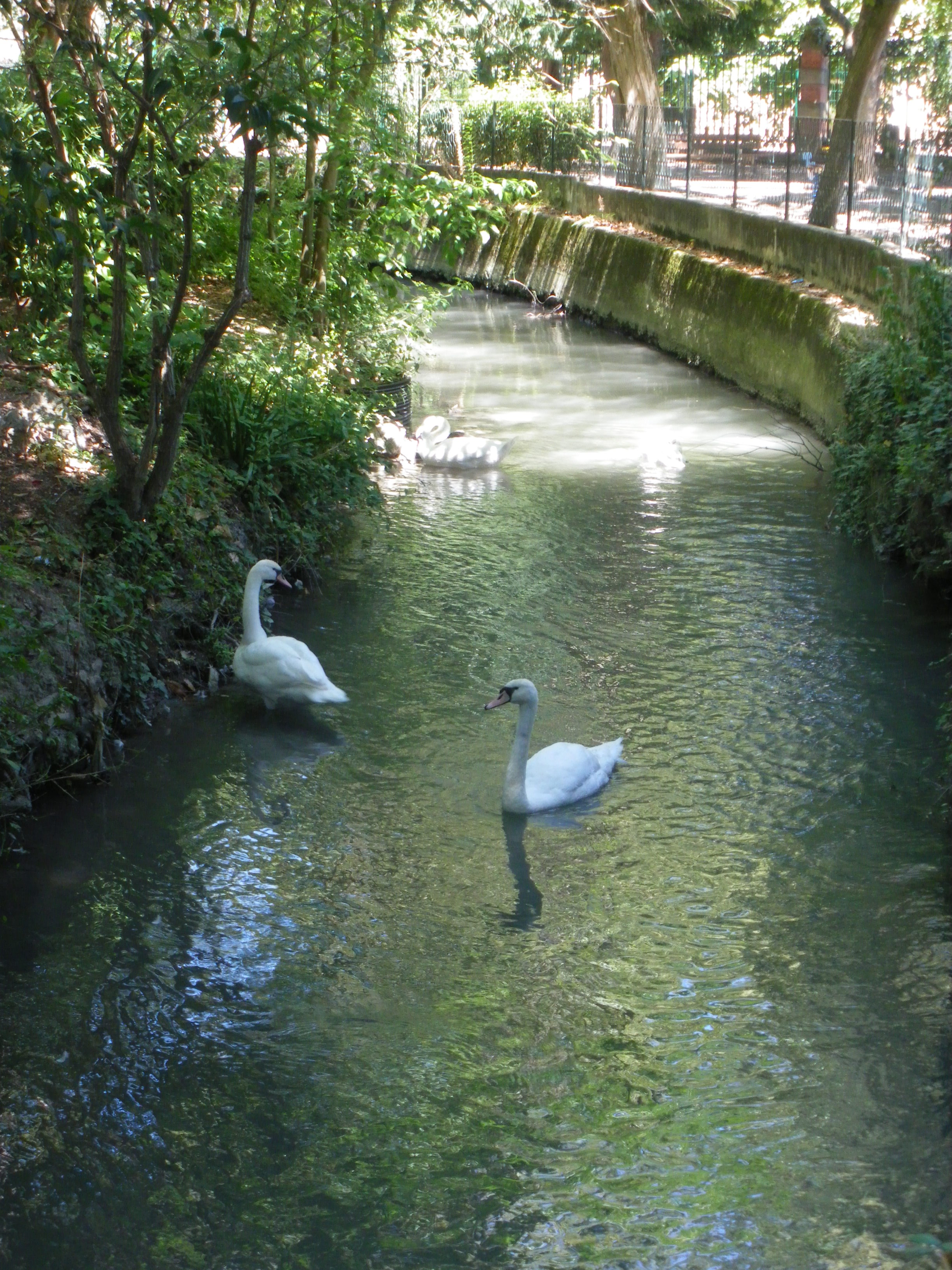 Seille River in Town Hall Parc, Courthézon, Vauluse France